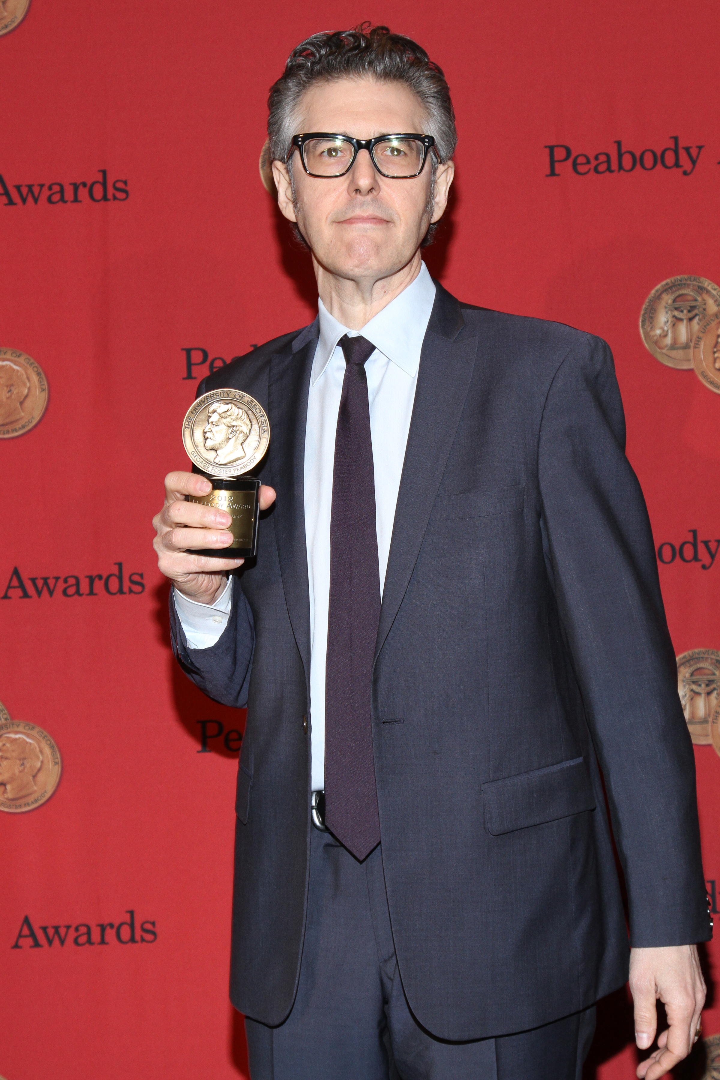 Ira Glass holds the Peabody Award for This American Life at the 73rd Annual Peabody Awards